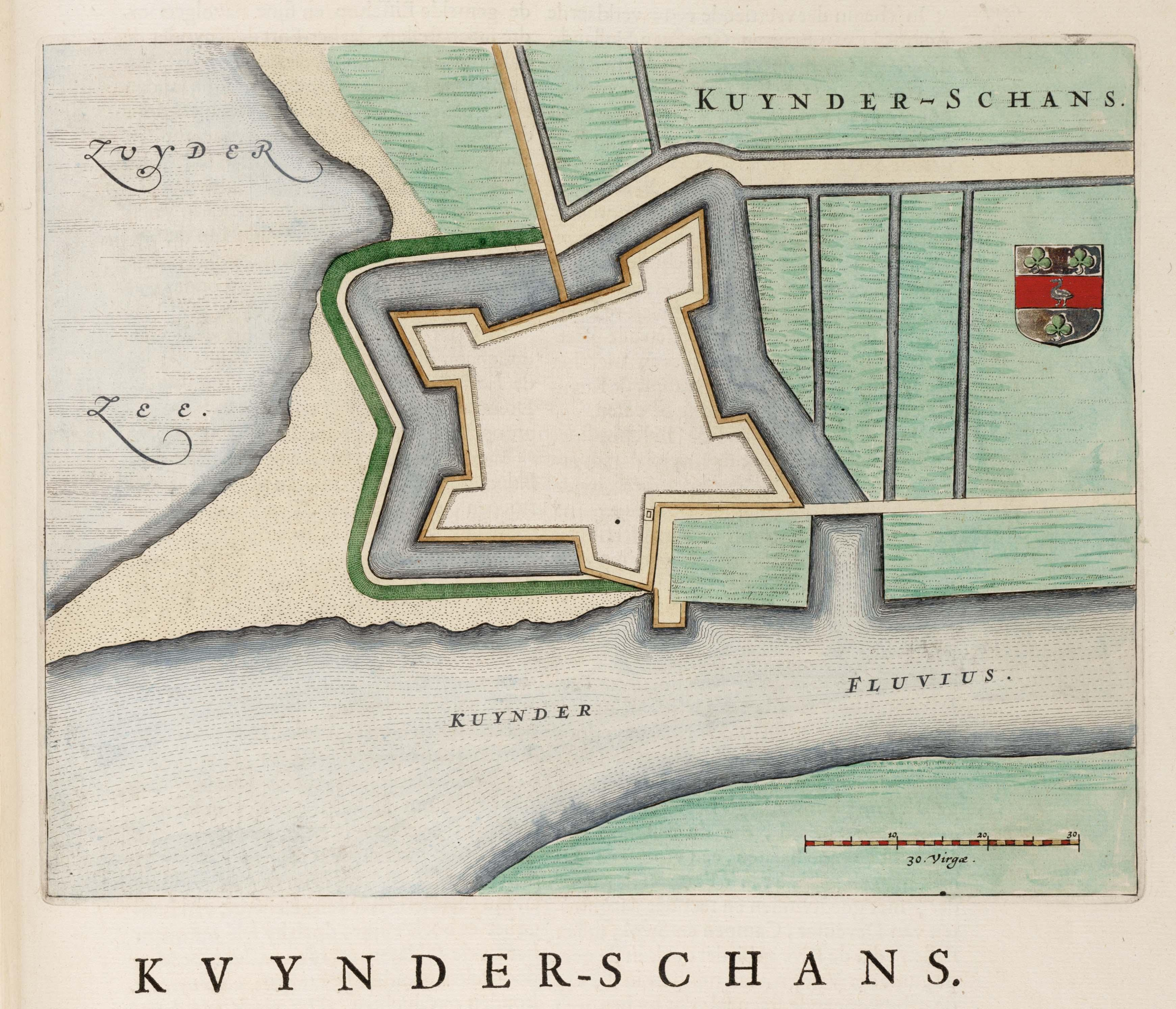 The fort of Kuinre (Kuynder)